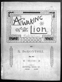 (Library of Congress)